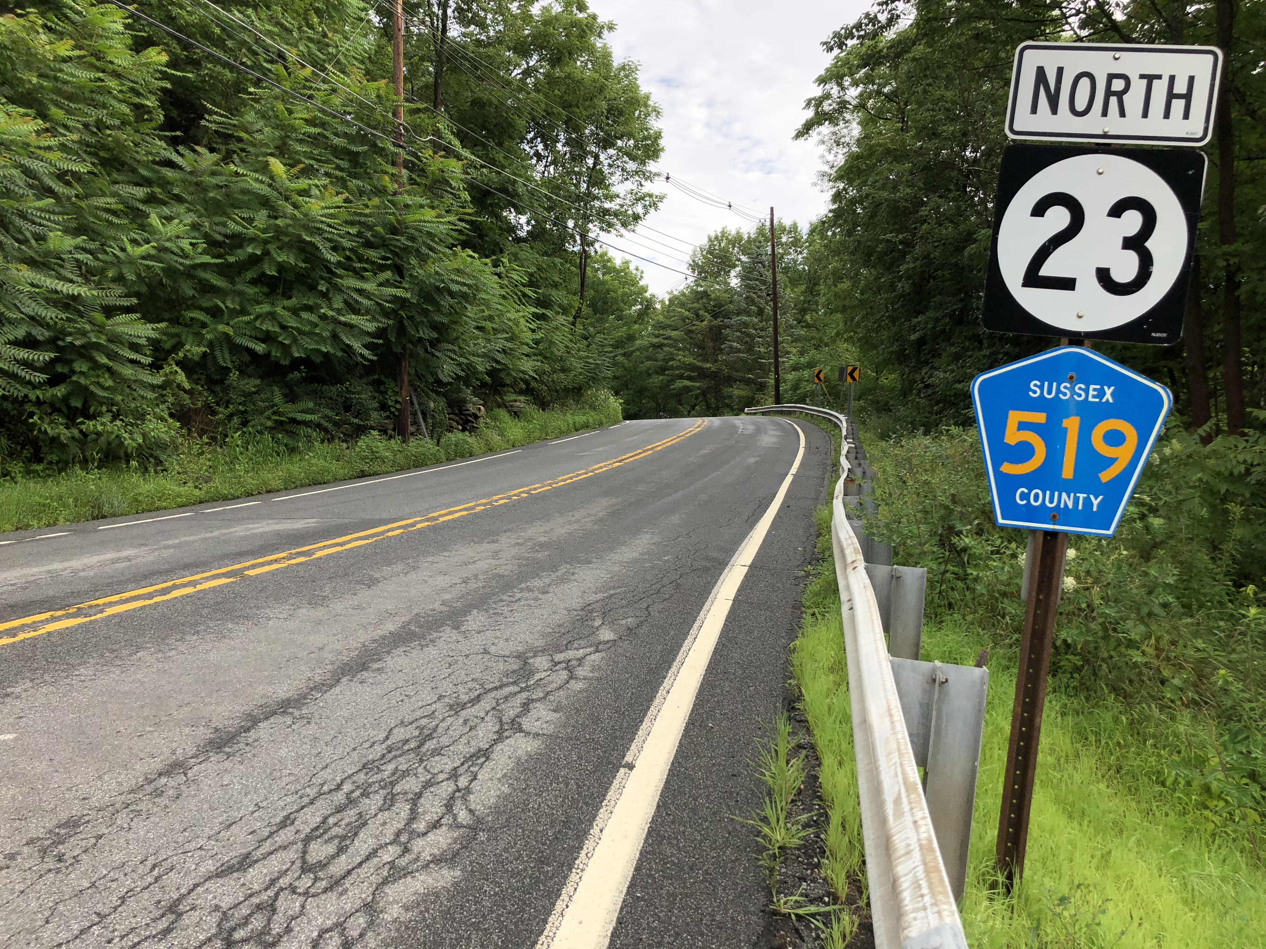 View north along New Jersey State Route 23 and Sussex County Route 519 just north of Brink Road in Wantage Township, Sussex County, New Jersey